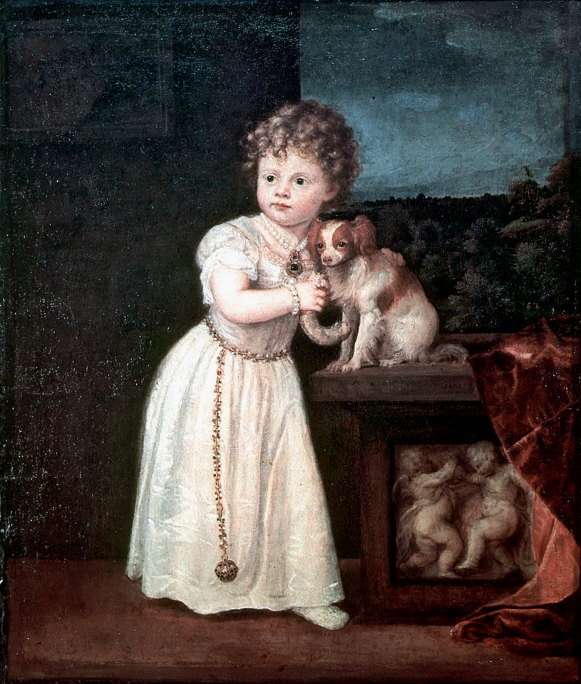 Portrait of Clarissa Strozzi (Clarissa de' Medici)